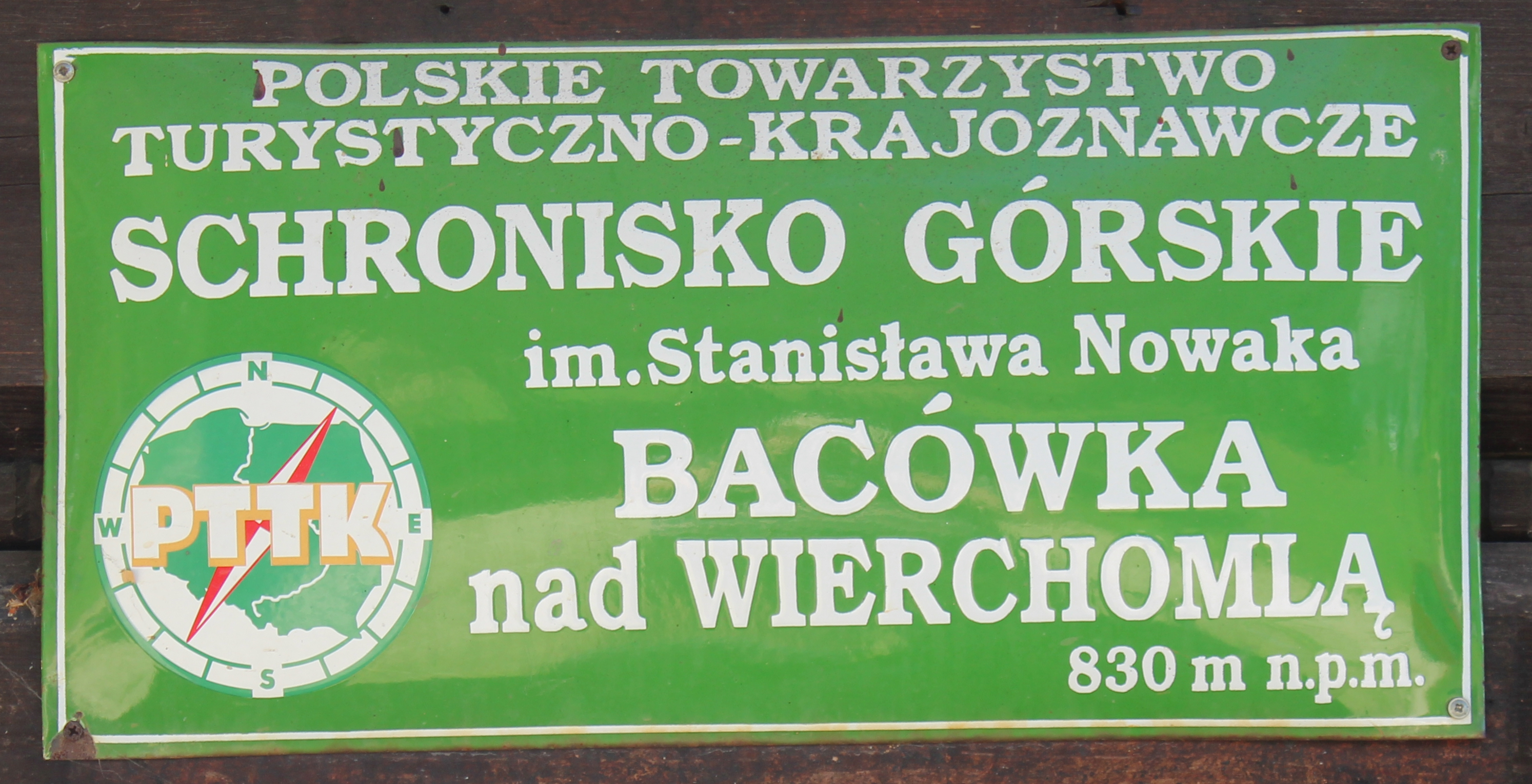 "Nad Wierchomlą" mountain hut